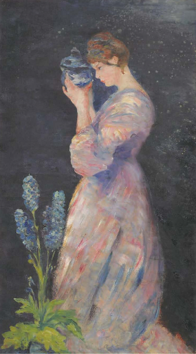 Woman holding a blue bowl, wearing a long purplish dress, blue delphiniums in front of her. Shown at the 1913 Armory Show.